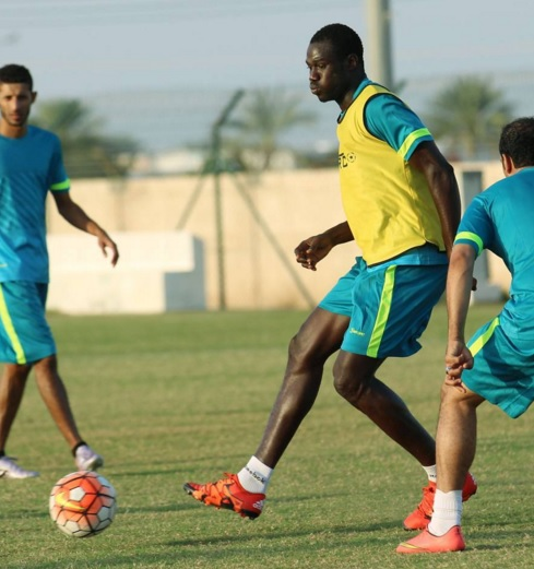 Abdoulaye Dieng in a training session with Saham before a match against Dhofar Club. Saham Club Ground, Saham, Oman 19 February 2016 Photographer email id